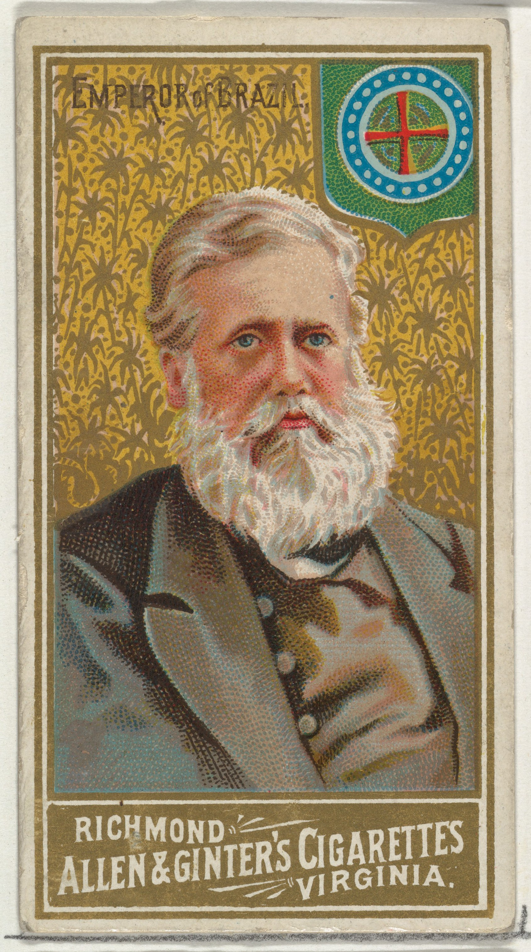 Print; Prints/Ephemera